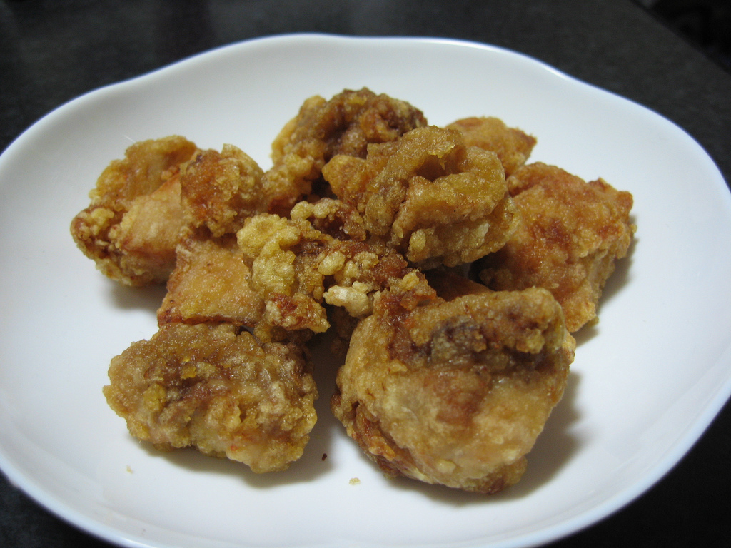 Japanese chicken karaage (fried chicken)